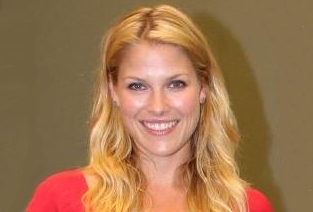 Actress Ali Larter at Comic-Con 2006.